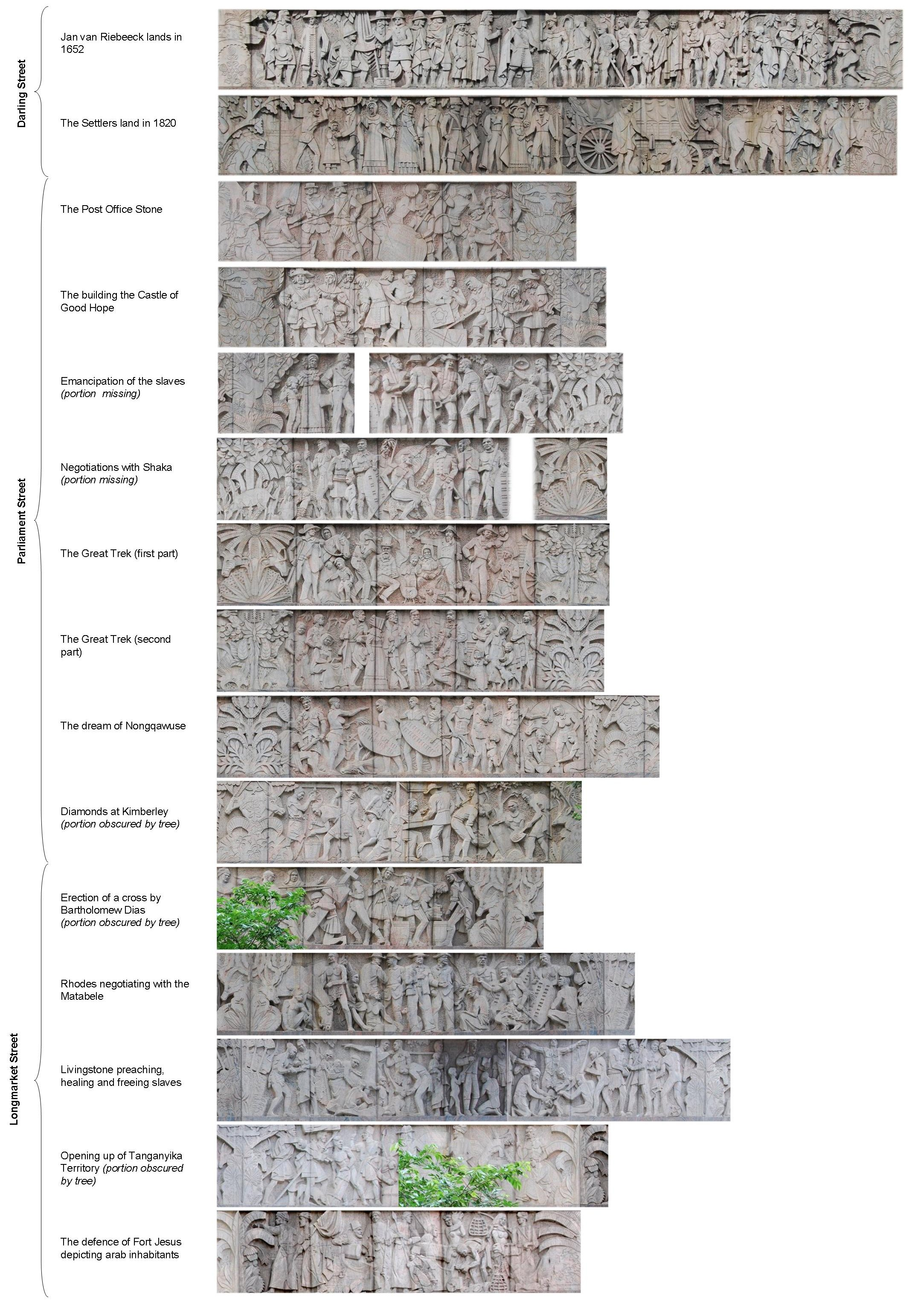 A composite view of the Mitford-Barberton frieze around the Mutual Building, Cape Town